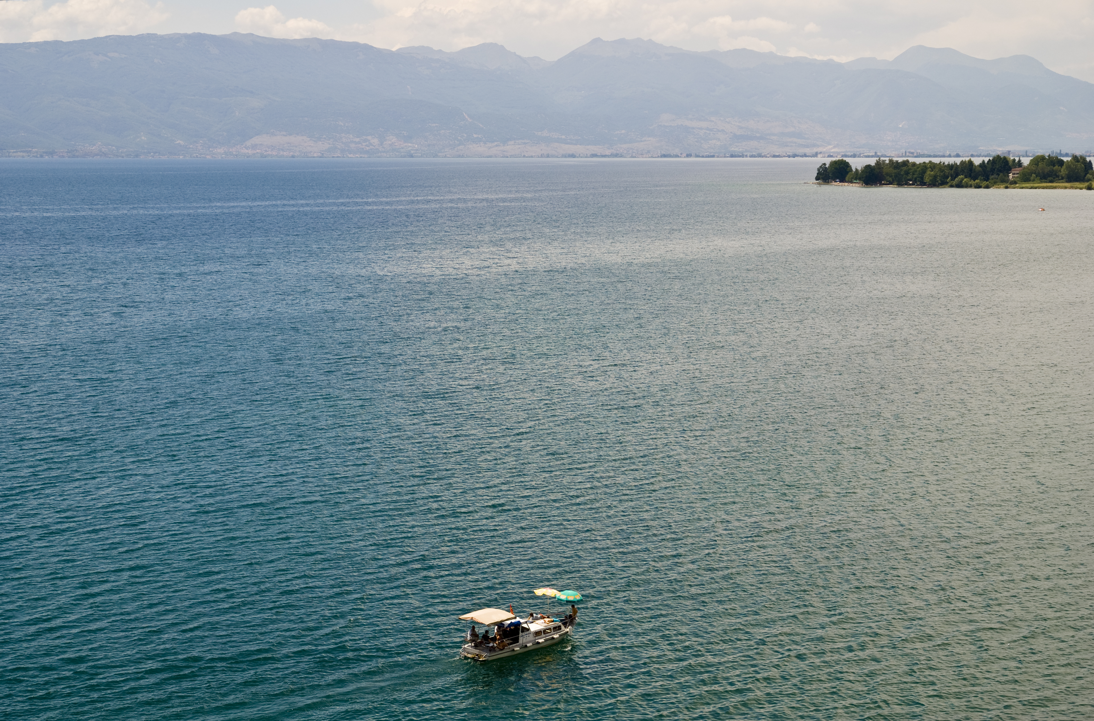 Lake Ohrid, Macedonia